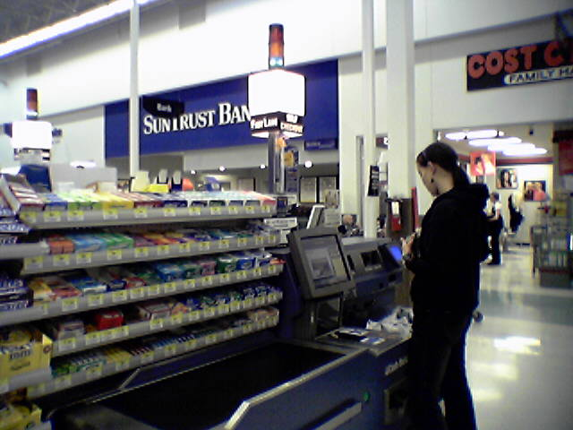 NCR Fastlane self checkout registers at the Wal-Mart store in Madison Heights, Virginia.